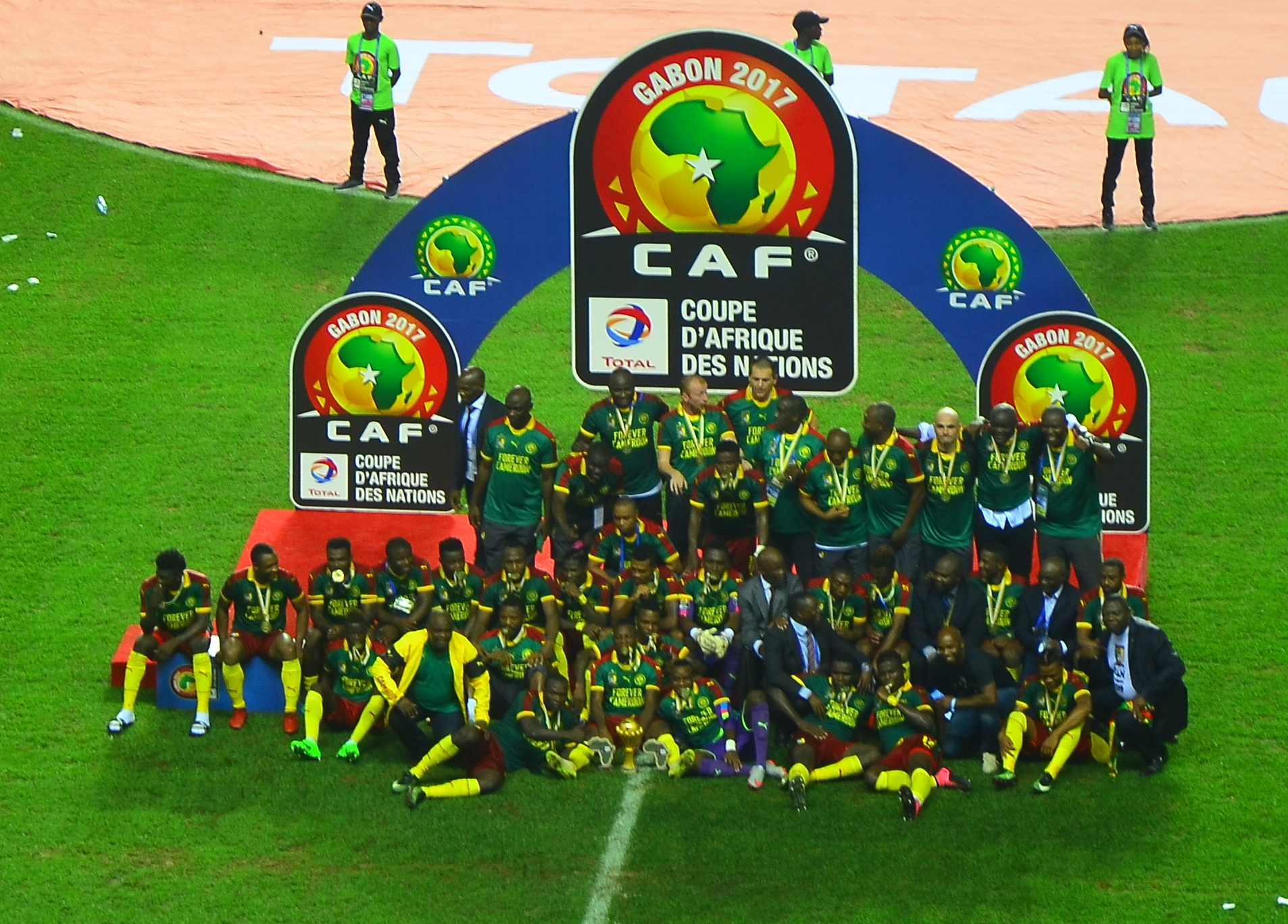 Cameroon celebrating winning 2017 Africa Cup of Nations 喀麦隆庆祝2017年非洲杯胜利